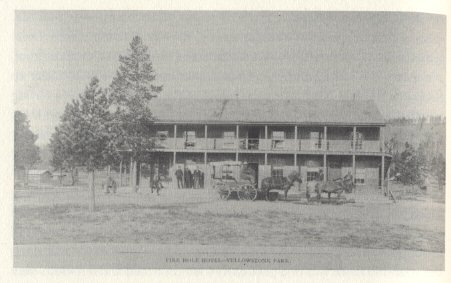 Firehole Hotel-1885, Lower Geyser Basin, Yellowstone National Park, Wyoming. The second of two hotels built by George W. Marshall.